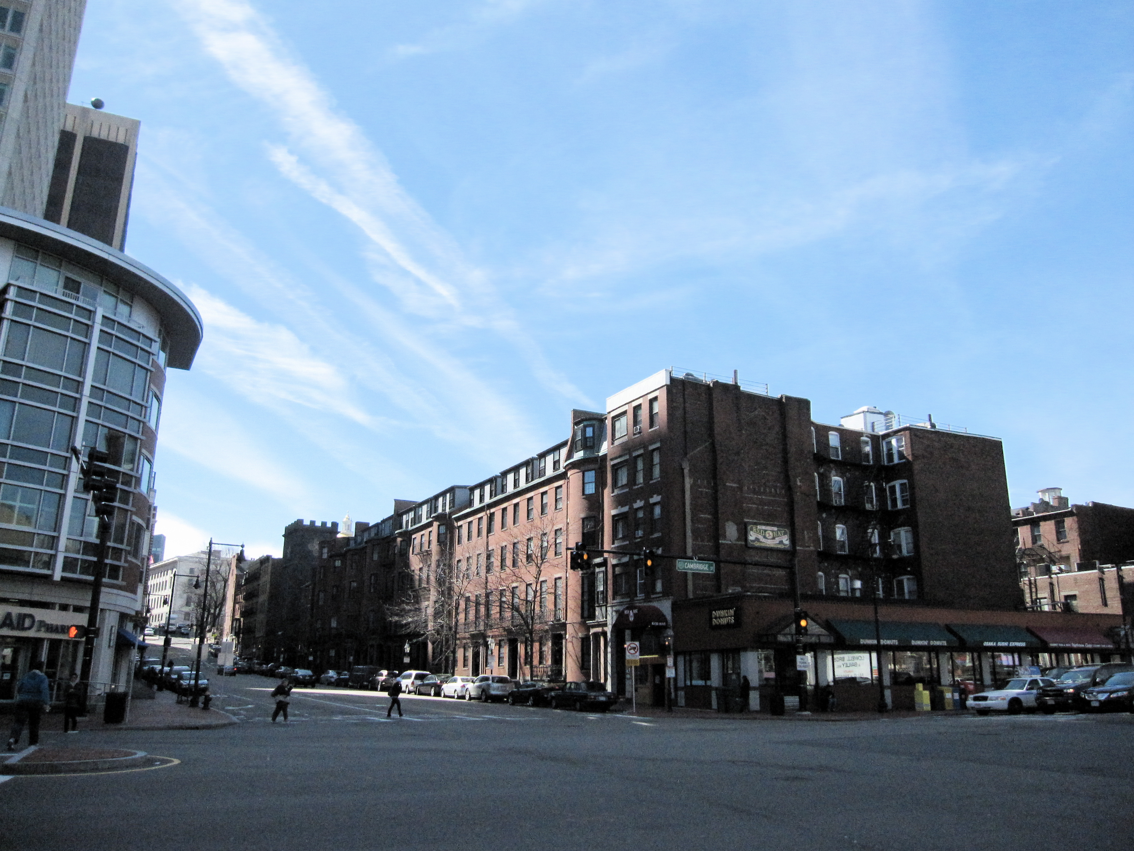 Boston, Massachusetts, March 2010